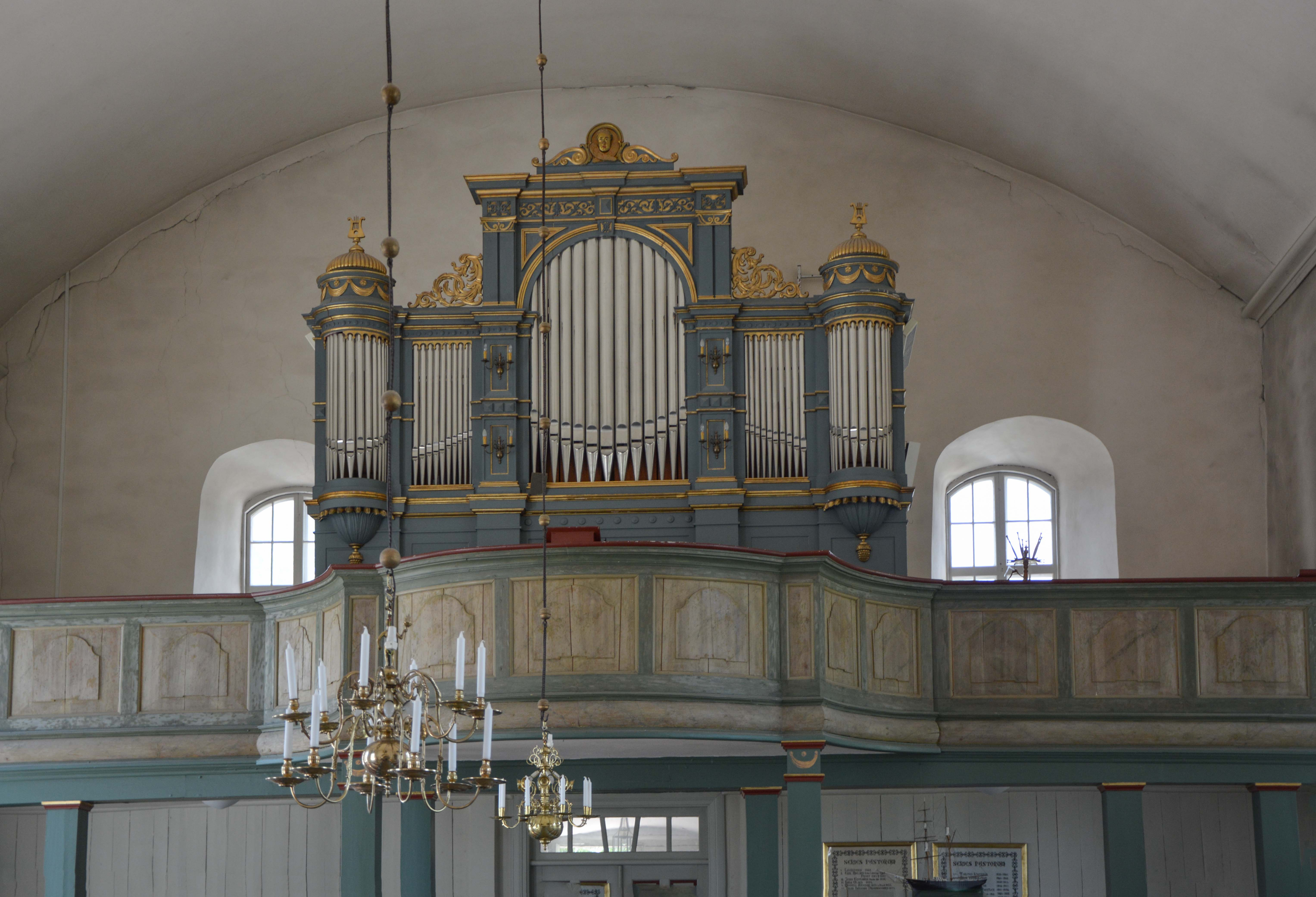 Ramdala Church.The organ